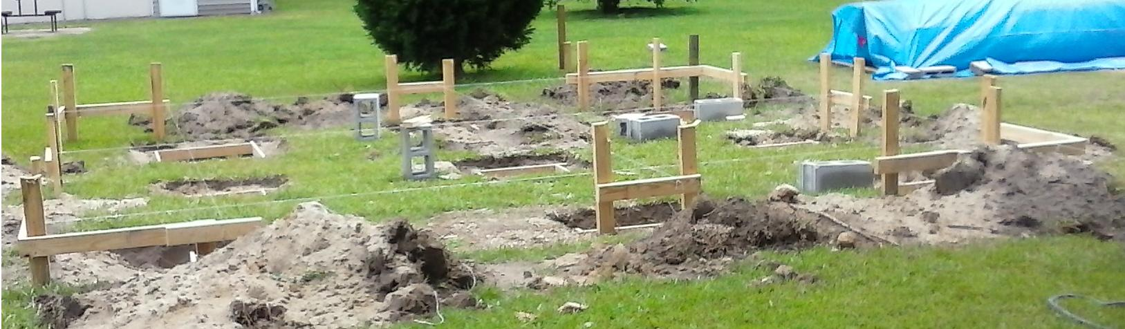 Foundation Dimensions are 16' x 16' with footers 4" beyond. For a storage barn at Core Point, NC